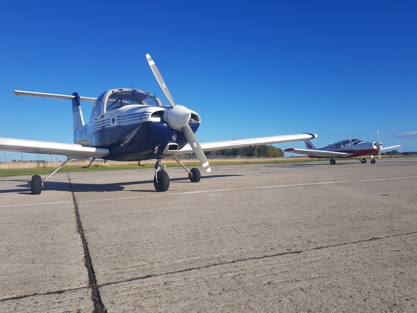 Apron - Highland Aviation